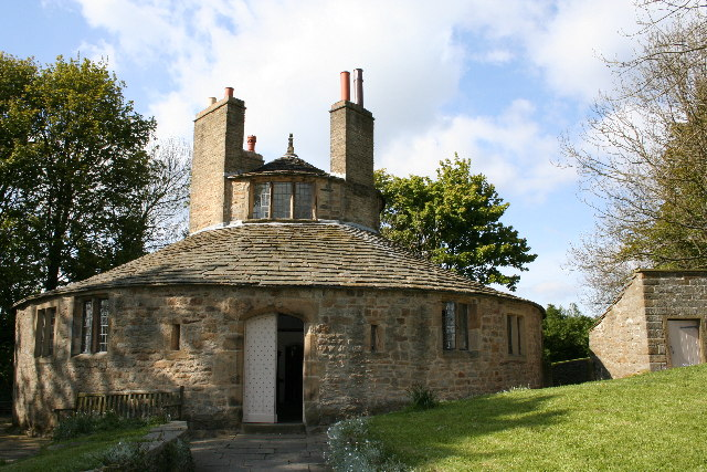 Beamsley Hospital. This circular building was built with a chapel at its centre and rooms round the outside for widows from the parish. It was an almshouse built by Lady Anne Clifford. It was last used as such in the 1970's and had since been renovated by the Landmark Trust and is used as a holiday cottage